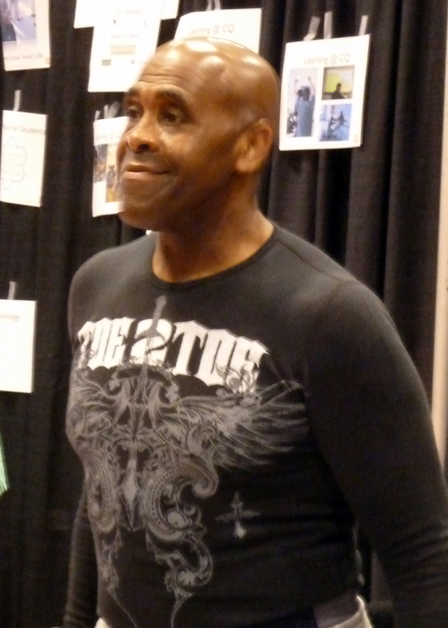 I missed Ted Dibiase, so here's Virgil